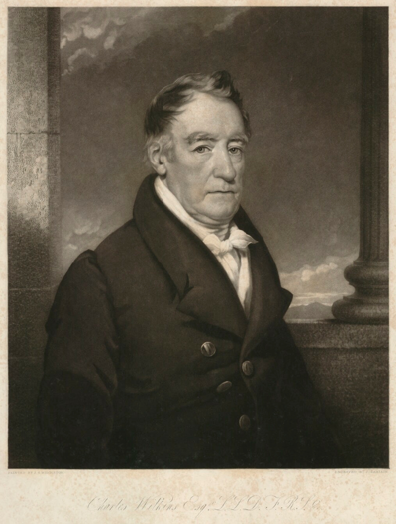 Sir Charles Wilkins (1749 – 1836)